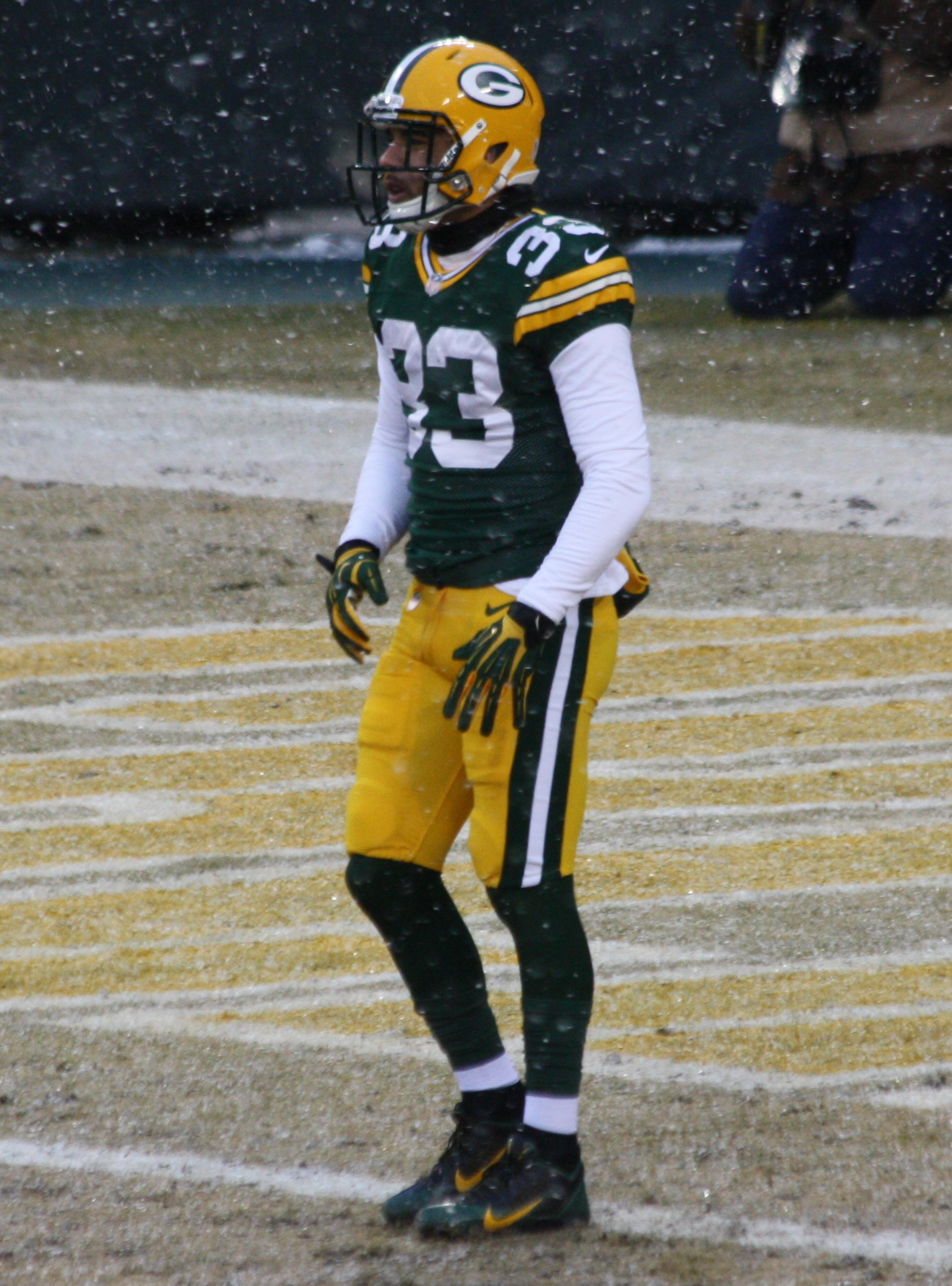 Green Bay Packers player Micah Hyde preparing to return a kickoff against the Pittsburgh Steelers.